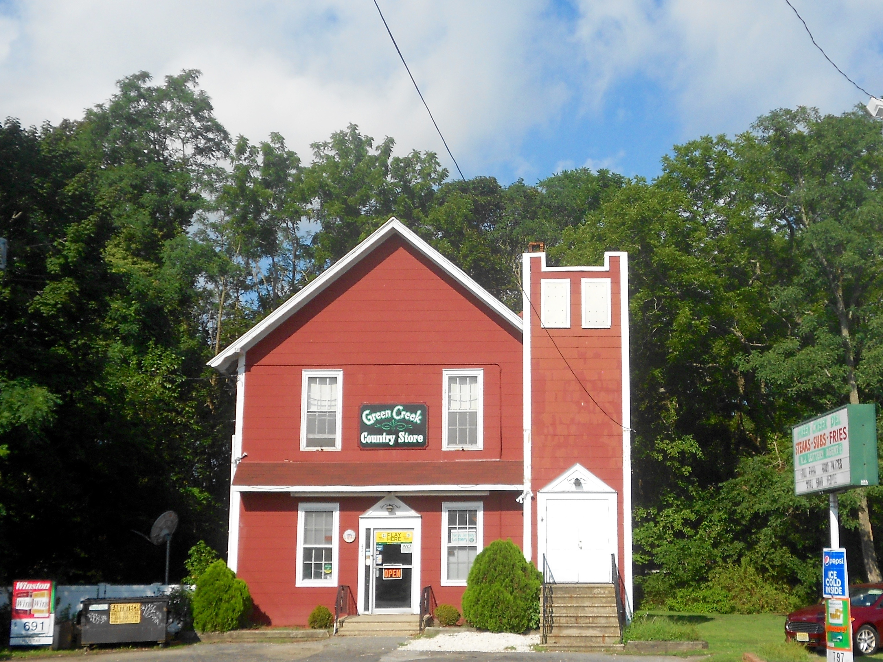 Store in Greek Creek, an unincorporated community in Middle Township, Cape May County, New Jersey on NJ 47 (Delsea Road)